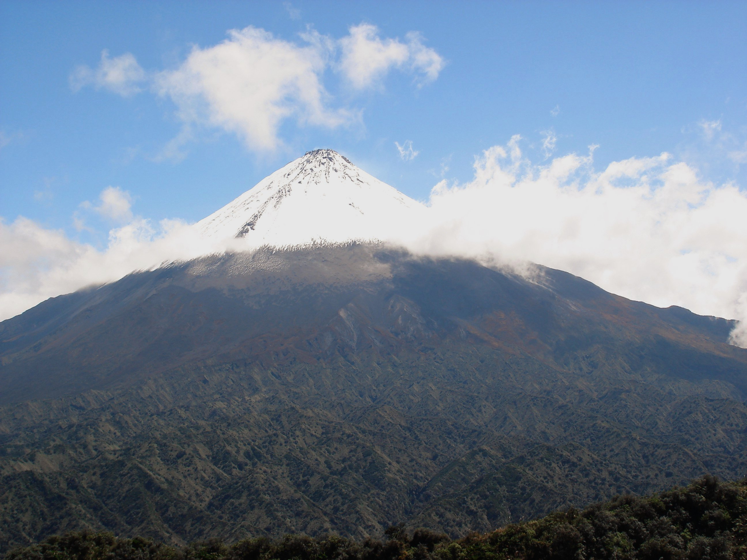 Western slope of Sangay volcano. Ecuador, January 2006